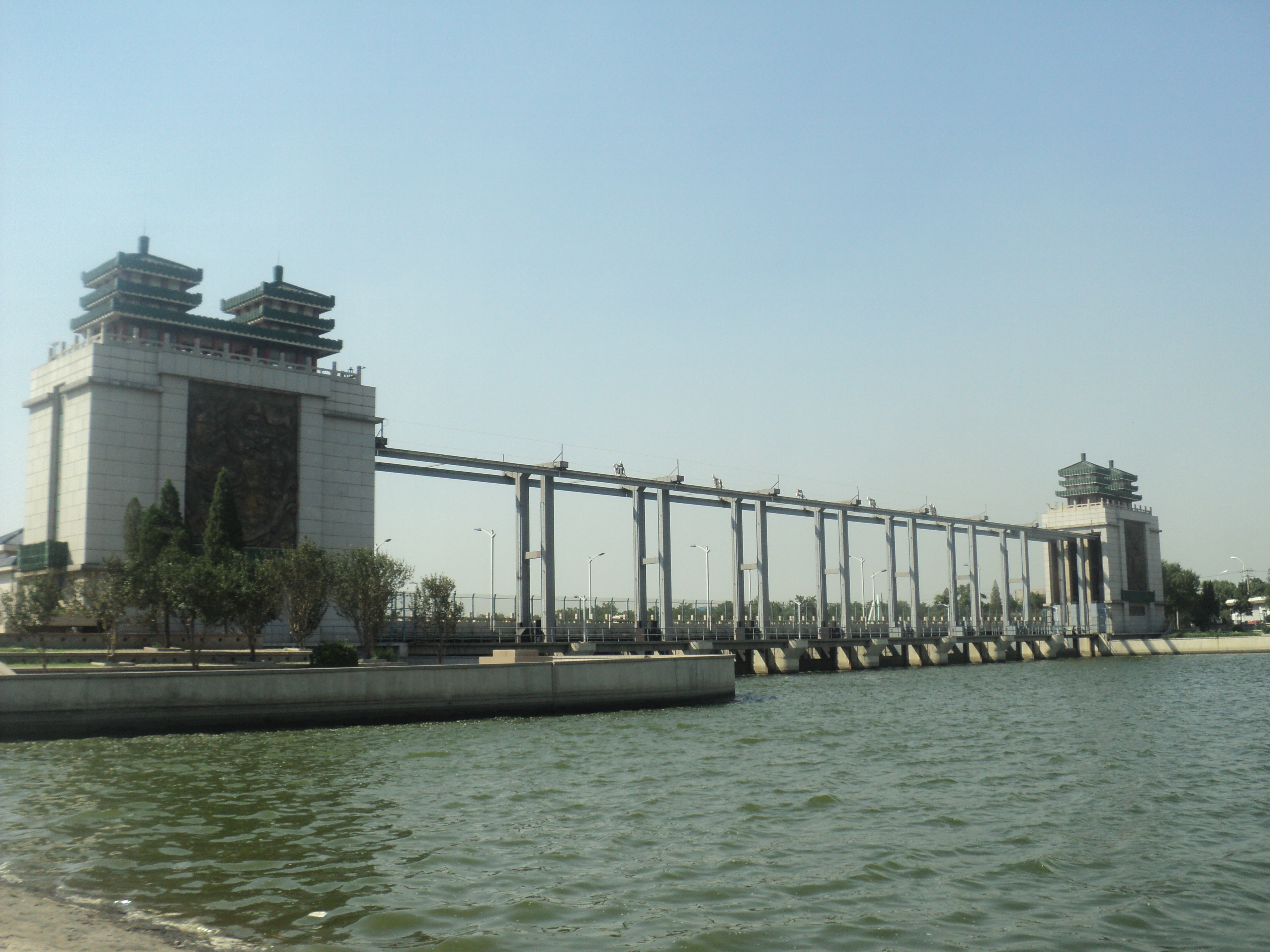 The Second Tidal Barrier closes the upper Haihe to navigation (and makes the lower Haihe into essentially a static reservoir)